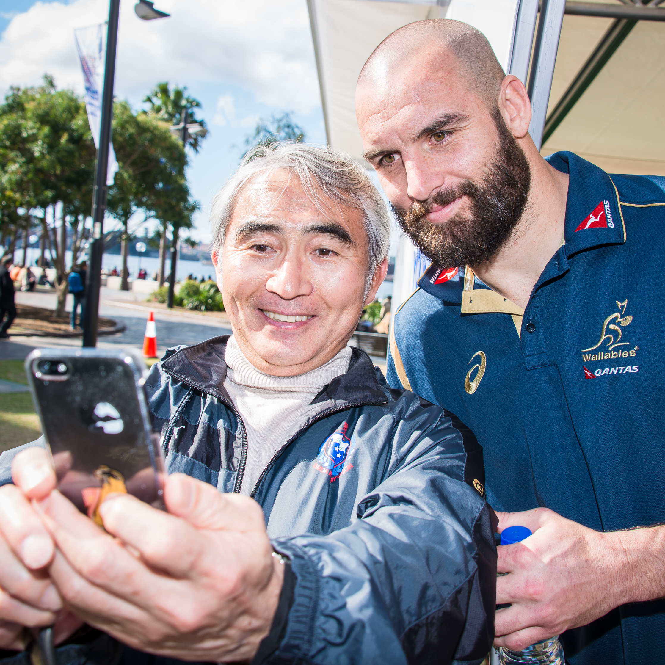 Wallaby Scott Fardy (R) and fan in 2014